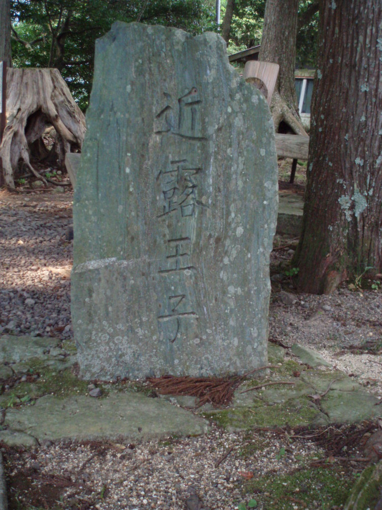 Monument_of_CHIKATSUYU-oji_remains